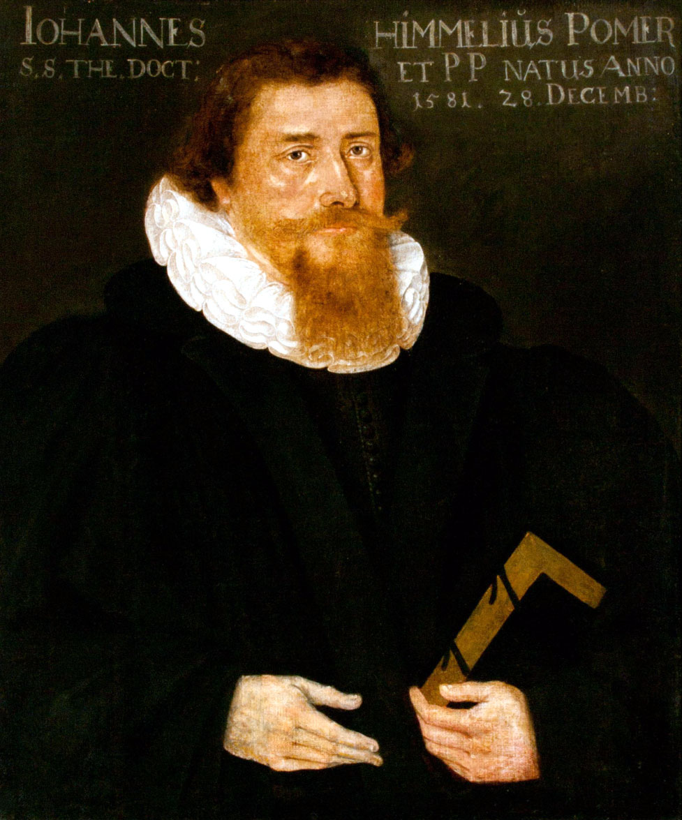 Johann Himmel (1581-1642) German Protestant theologian